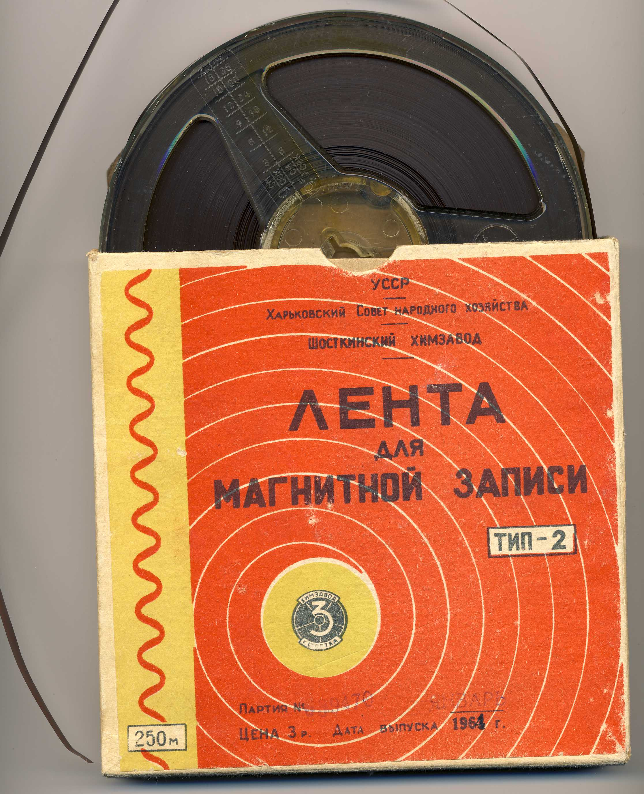 'Type 2' (not IEC type II) recorder tape. Shostka Chemical Plant (before introducing the Svema™) USSR, early 1960s.